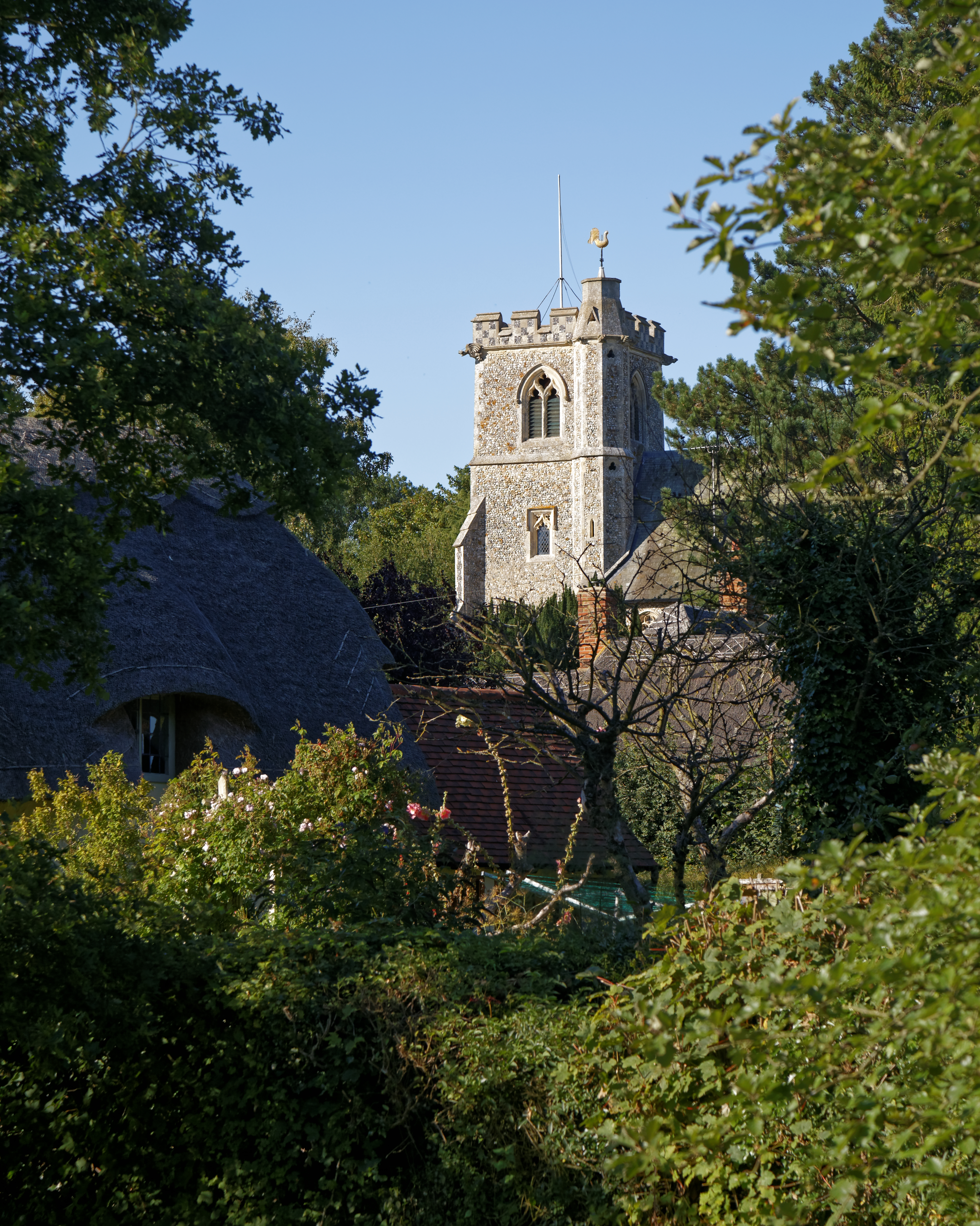 Church of St Mary from Hampit Road in Arkesden, Essex, England.Software: RAW file lens-corrected, optimized and converted to JPEG with DxO OpticsPro 10 Elite, and likely further optimized and/or cropped and/or spun with Adobe Photoshop CS2.